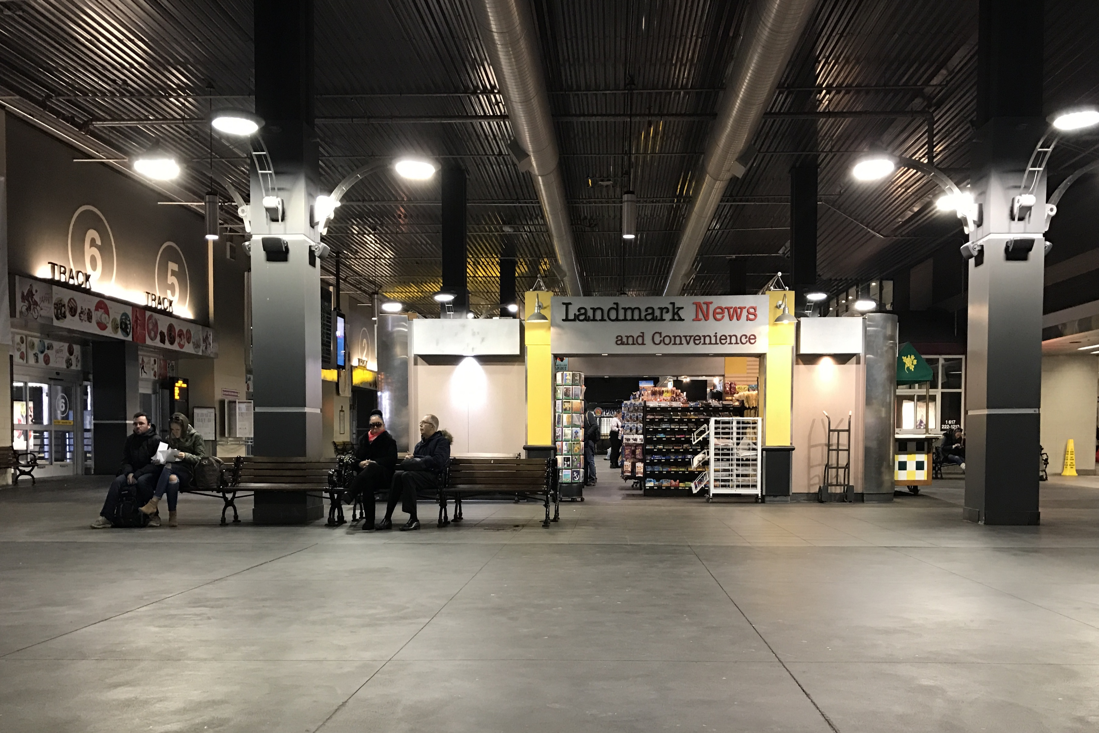 Waiting area for commuter rail and Amtrak trains at North Station, Boston, Massachusetts